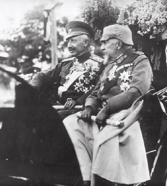 Kaiser Wilhelm II in Bulgarian uniform (with field-marshal insignia) and tsar Ferdinand I in German field-marshal's uniform, during a visit to Bulgaria.